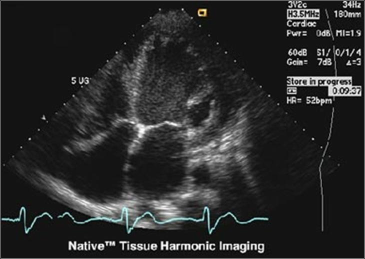 ultrasound, heart, tissue harmonic imaging, 4-chamber-view